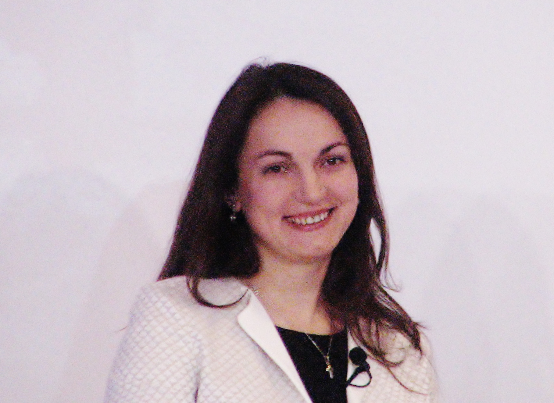 Hanna Hopko performing in Lennart Meri conference